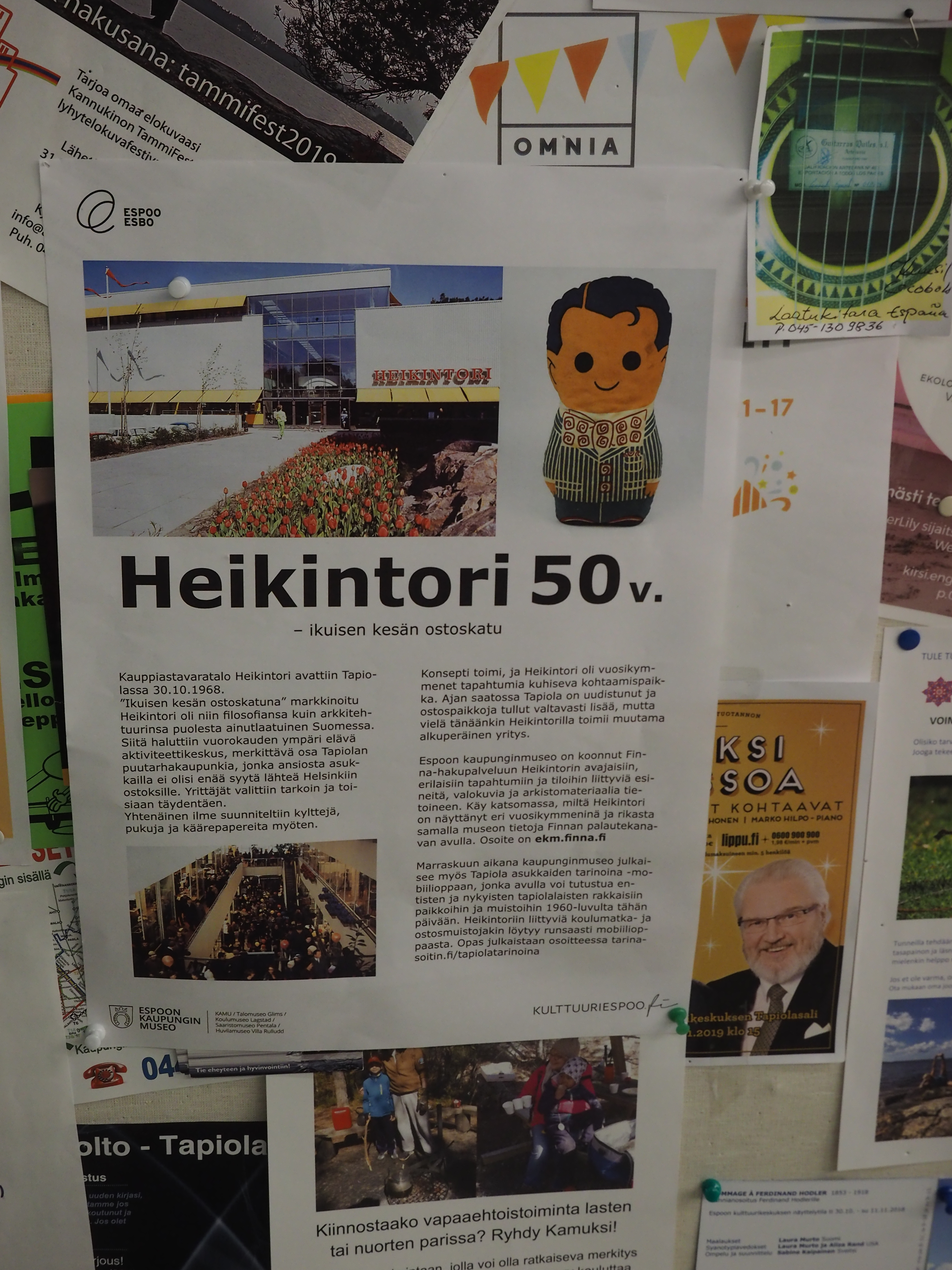 An article (in Finnish) published by the city of Espoo, commemorating the 50th birthday of the shopping centre Heikintori in Tapiola, Espoo, Finland, on 30 October 2018. At that time the shopping centre was already so well on its way to disuse that no event whatsoever was held to commemorate the 50th birthday.